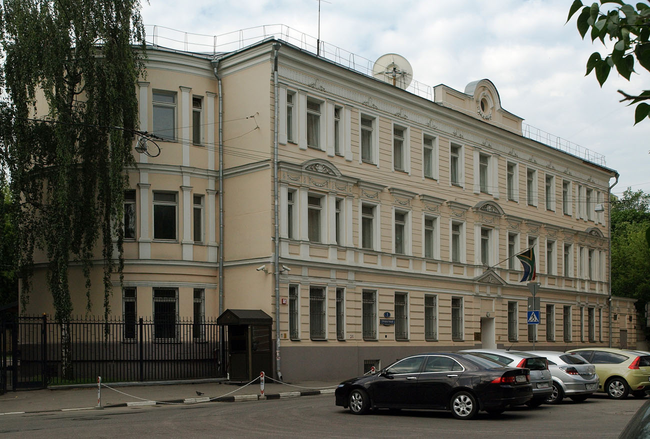 Embassy of South Africa in Moscow (Granatny Lane / Spiridonovka Street).